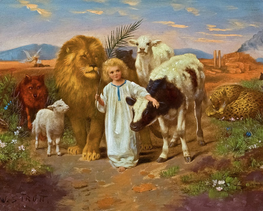 A little child shall lead them - William Strutt, 1896. Oil on canvas